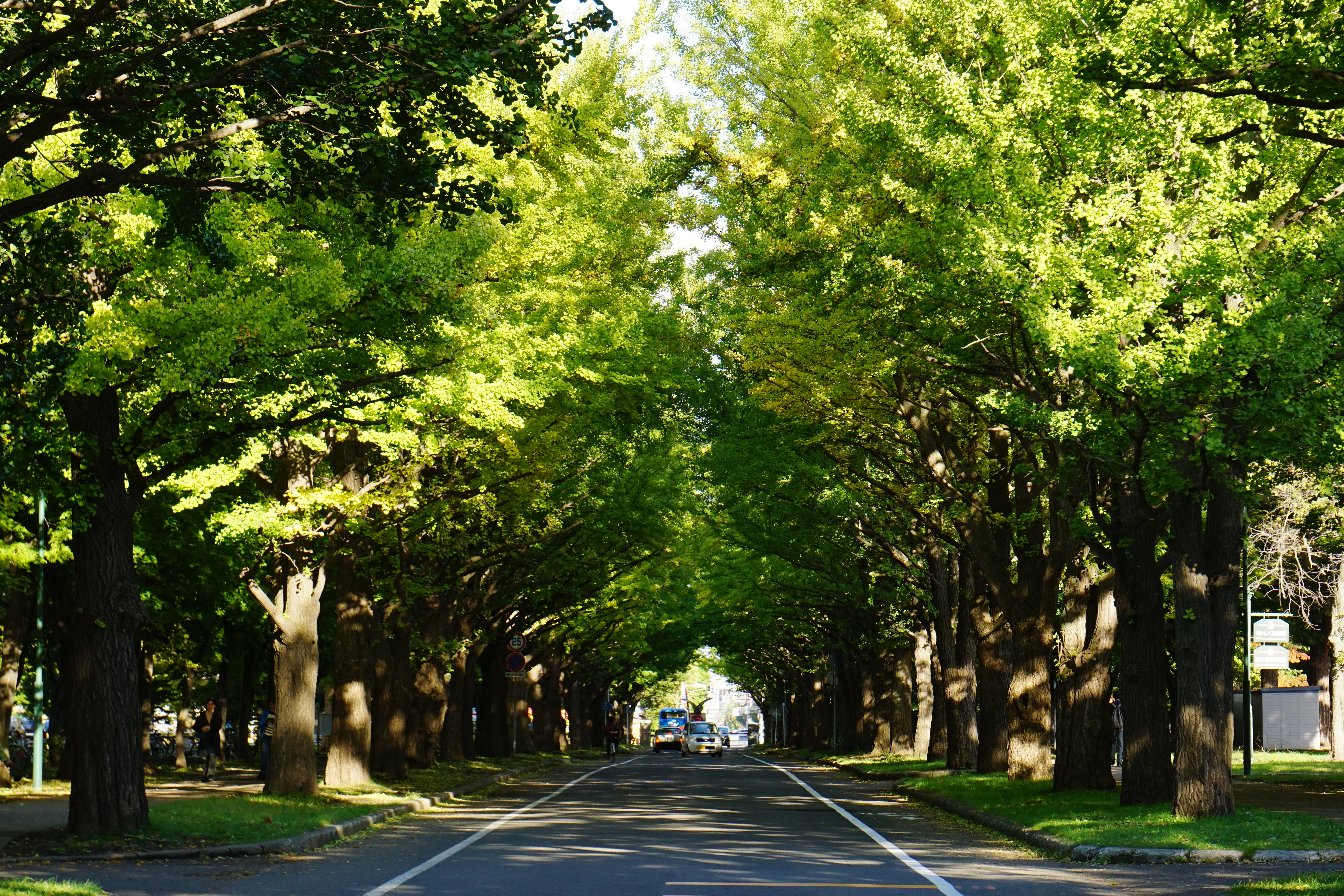 At Hokkaido University in Sapporo, Hokkaido prefecture, Japan.